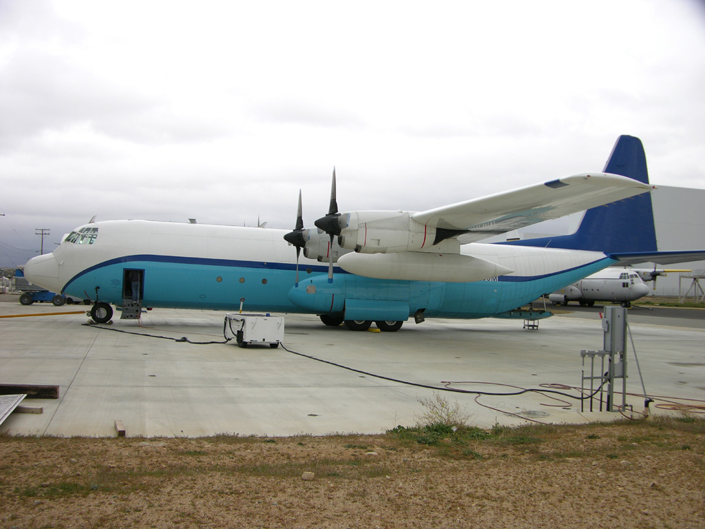 L-382 of Tepper Aviation at Mojave Spaceport. Lockheed L-382 N2189M operated by Tepper visiting the Mojave Spaceport in 2006.